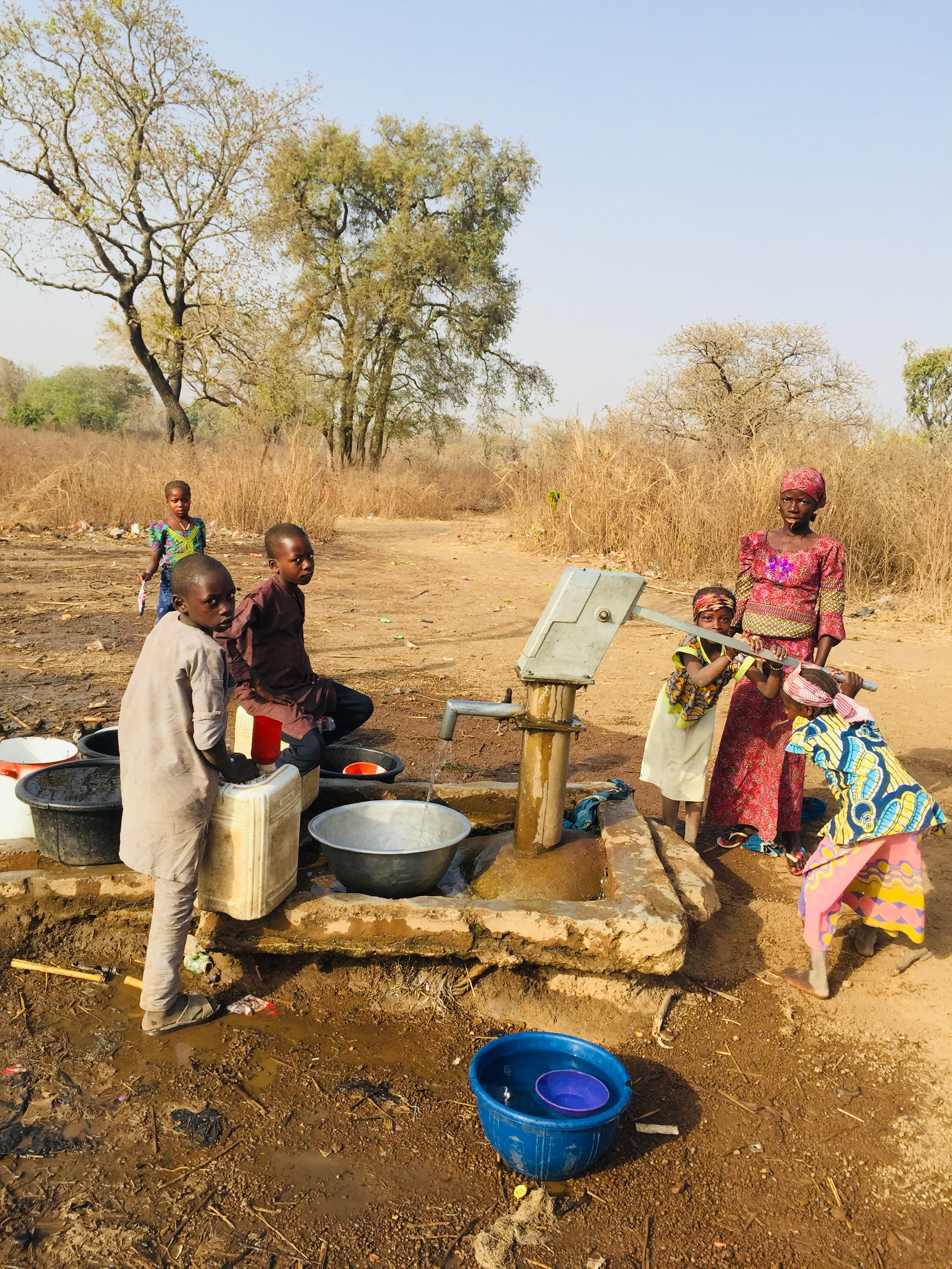 Human powered drill in kaiama, kwara state, Nigeria This is an image with the theme "Play" from: Nigeria